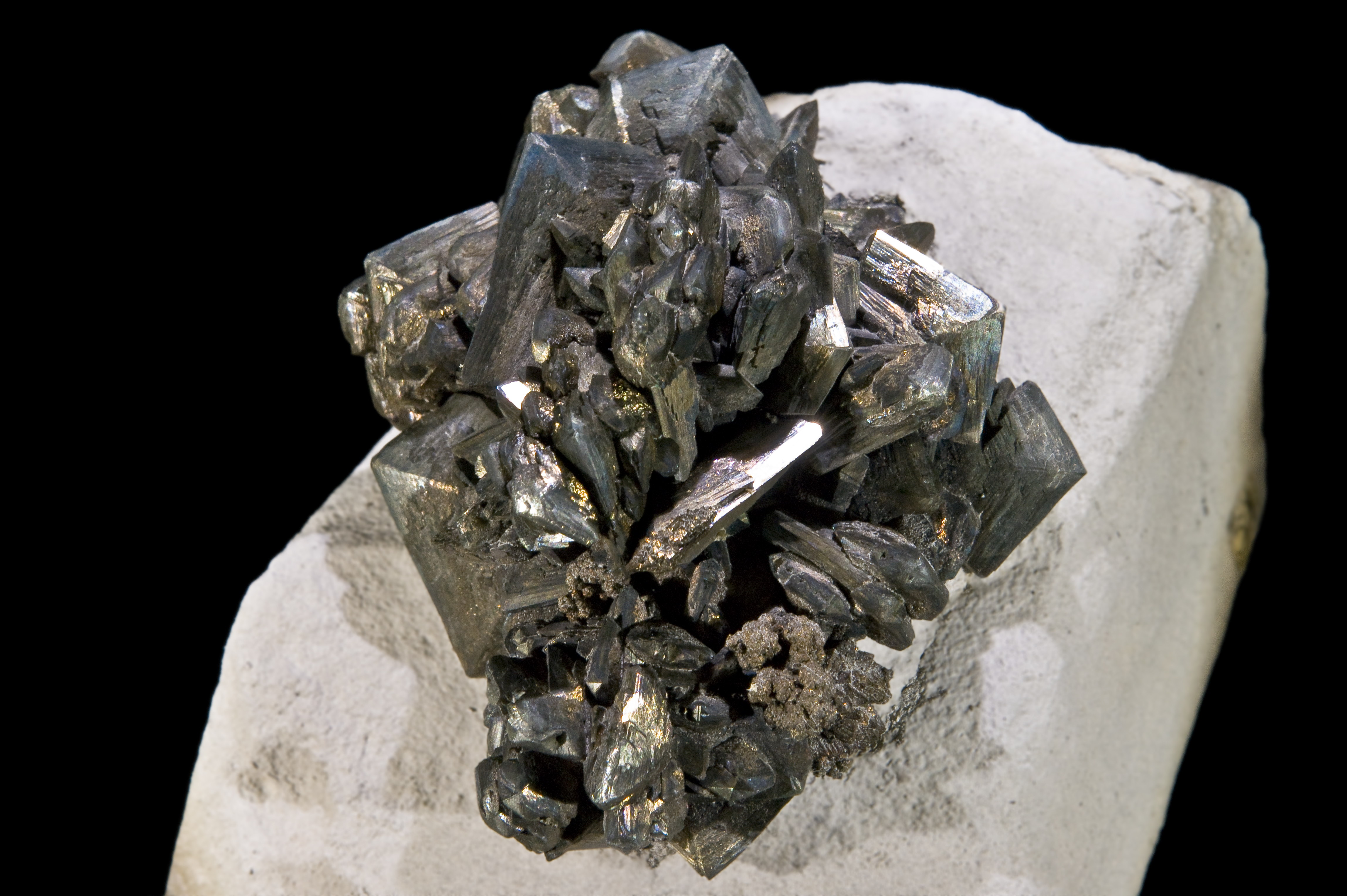 Marcasite from chalk Locality : Cap Blanc Nez France. Size :8x6cm